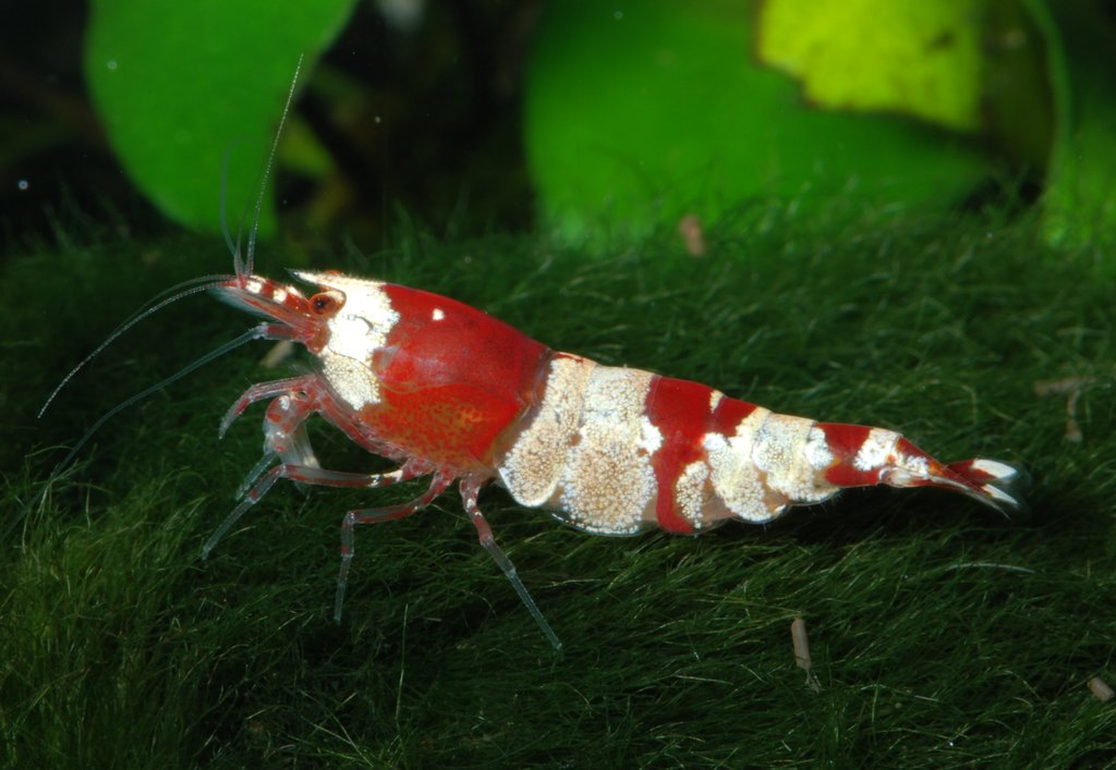 Caridina cf. cantonensis red bee is a red-white striped freshwater shrimp and also very popular.